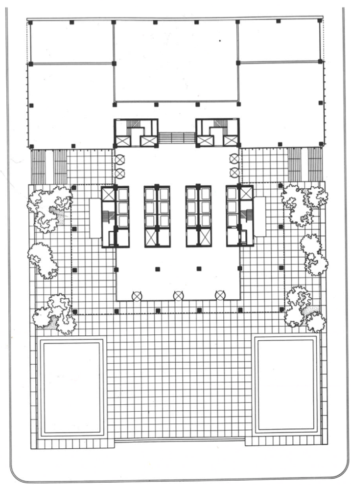 A floor plan of the ground floor of the Seagram Building, designed by Ludwig Mies van der Rohe, located at 375 Park Avenue, New York. It is a notable example of the International Style.